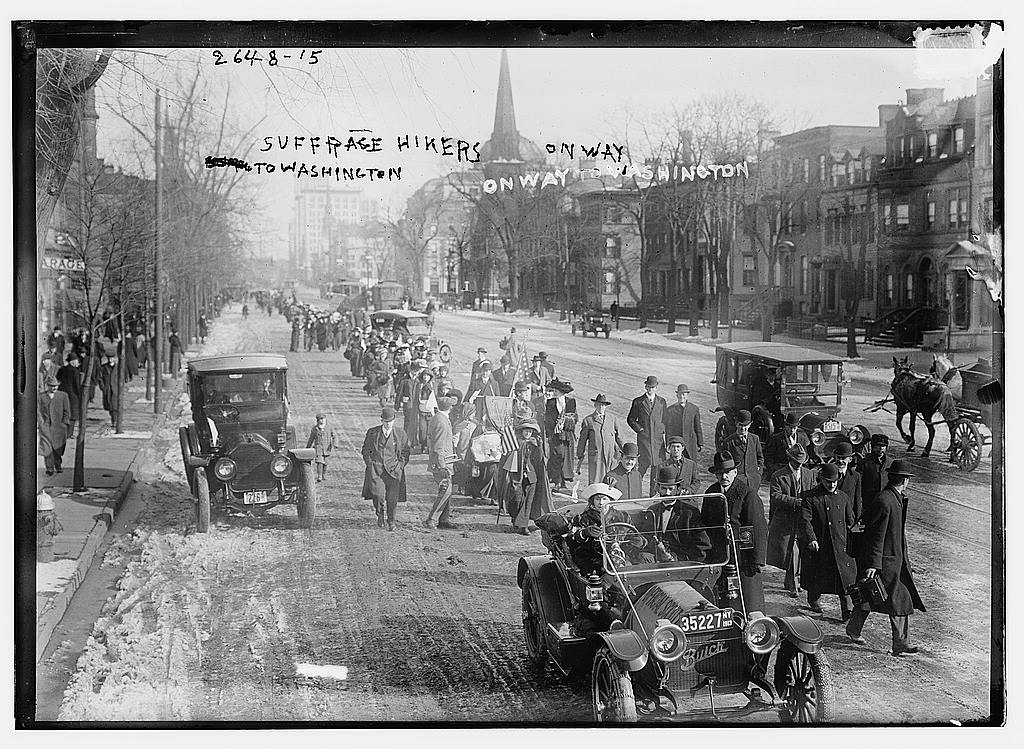 Suffrage Hikers on way to Wash.